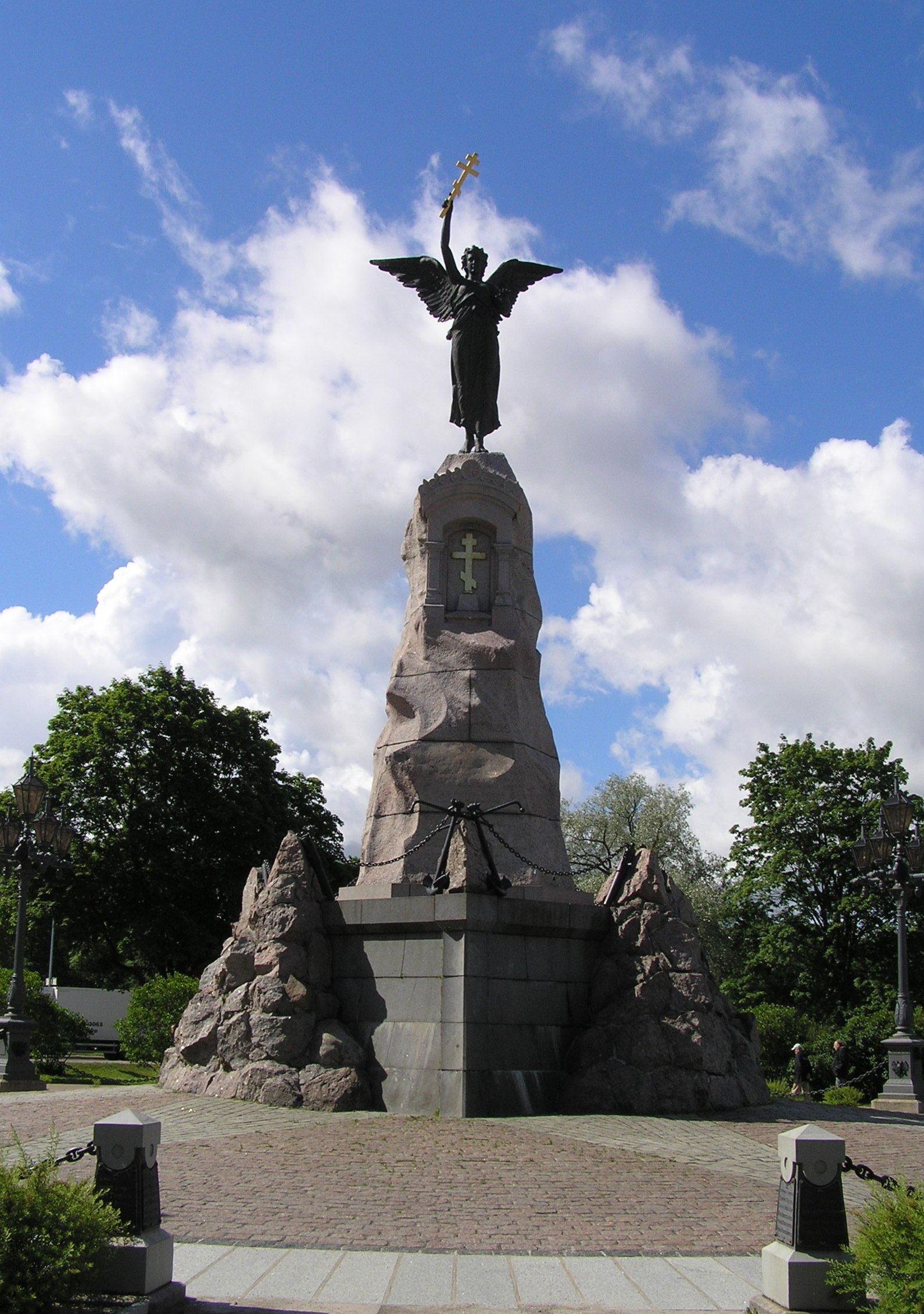 Sailors of the Battleship Russalka